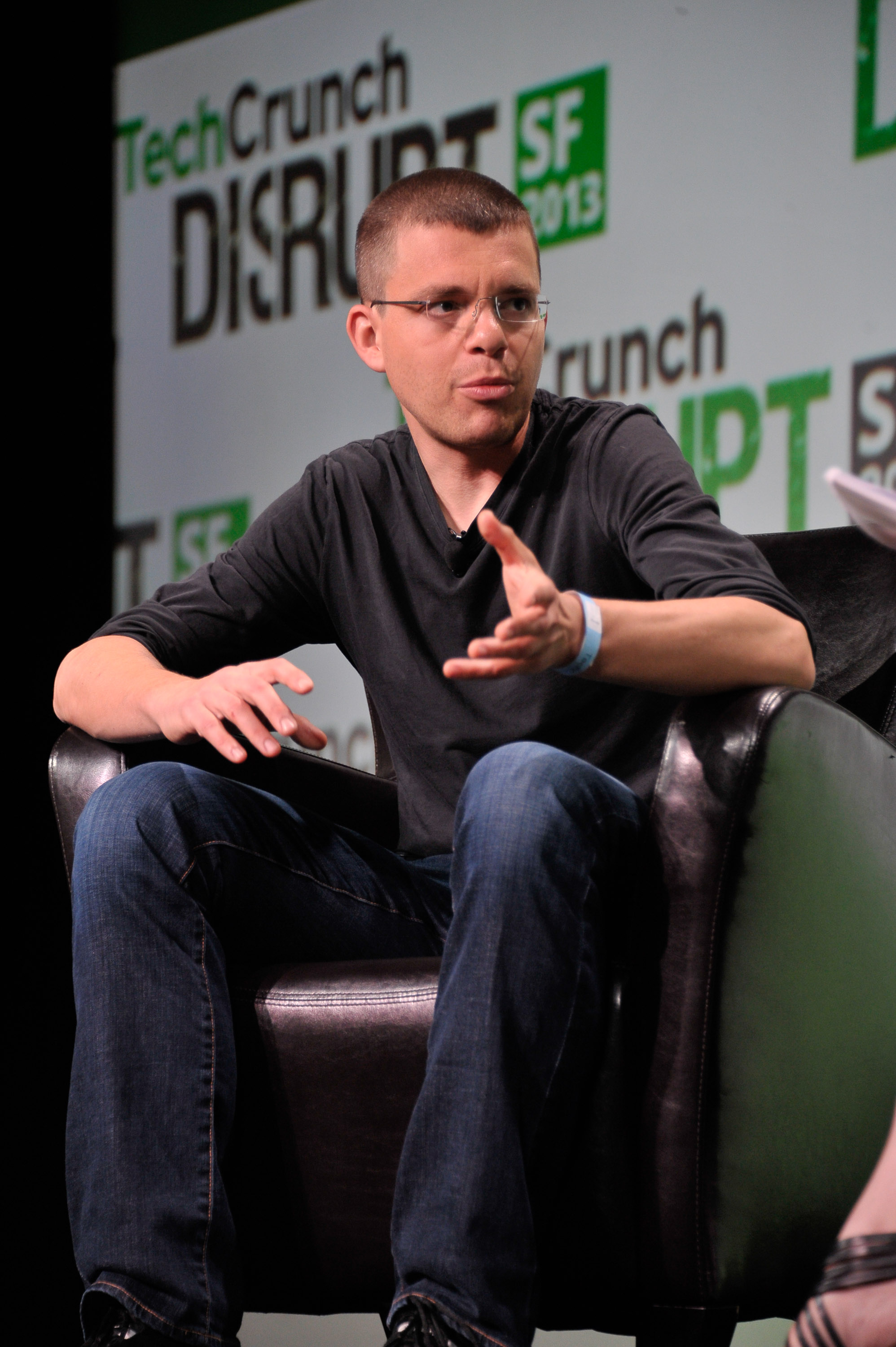 Max Levchin at TechCrunch Disrupt SF 2013 on September 10, 2013